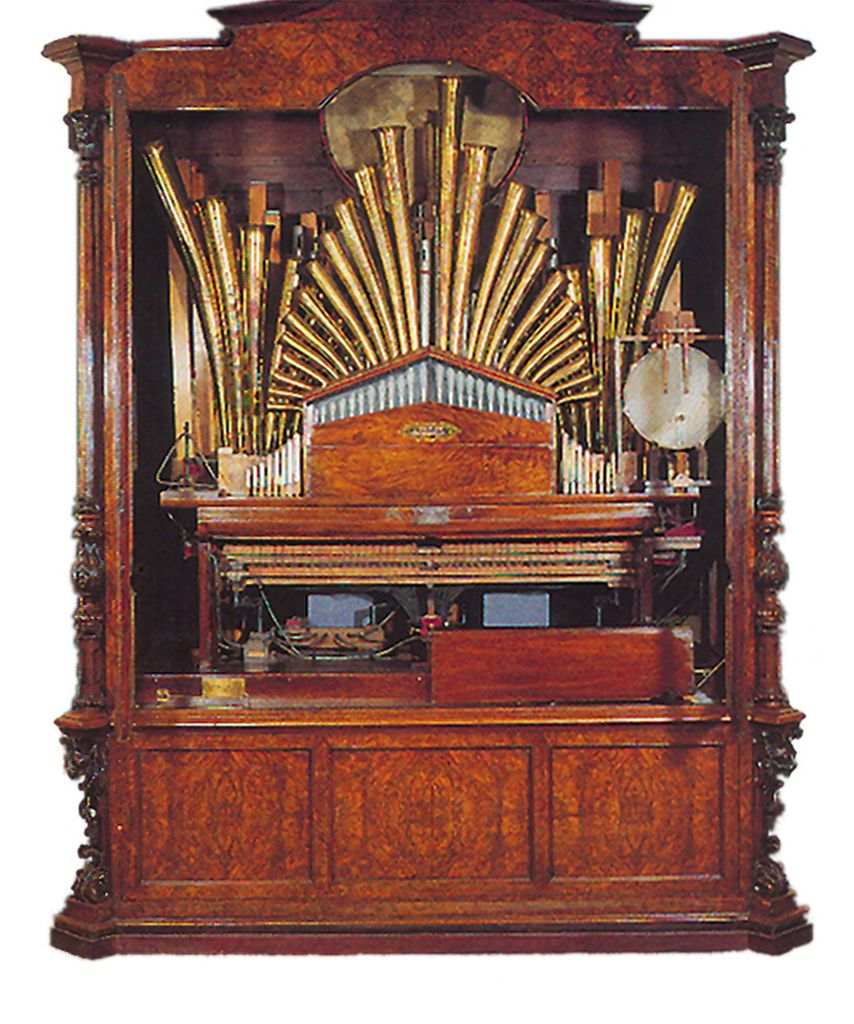 Blackpool Tower Orchestrion. Large wooden case, which has three long glass windows in the front. Through the window the brass pipes of the organ are visible. Made by Imhof & Mukle, Baden, Germany. Editing Undertaken: Median, Unsharp Mask, background removed, Auto Levels, Auto Contrast